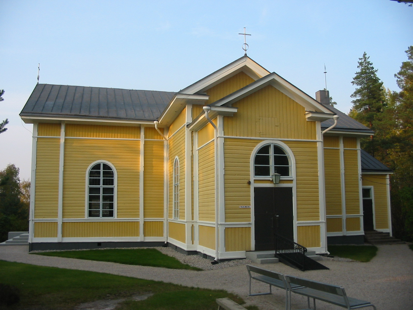 Kuusjoki Church in Salo, Finland Proper